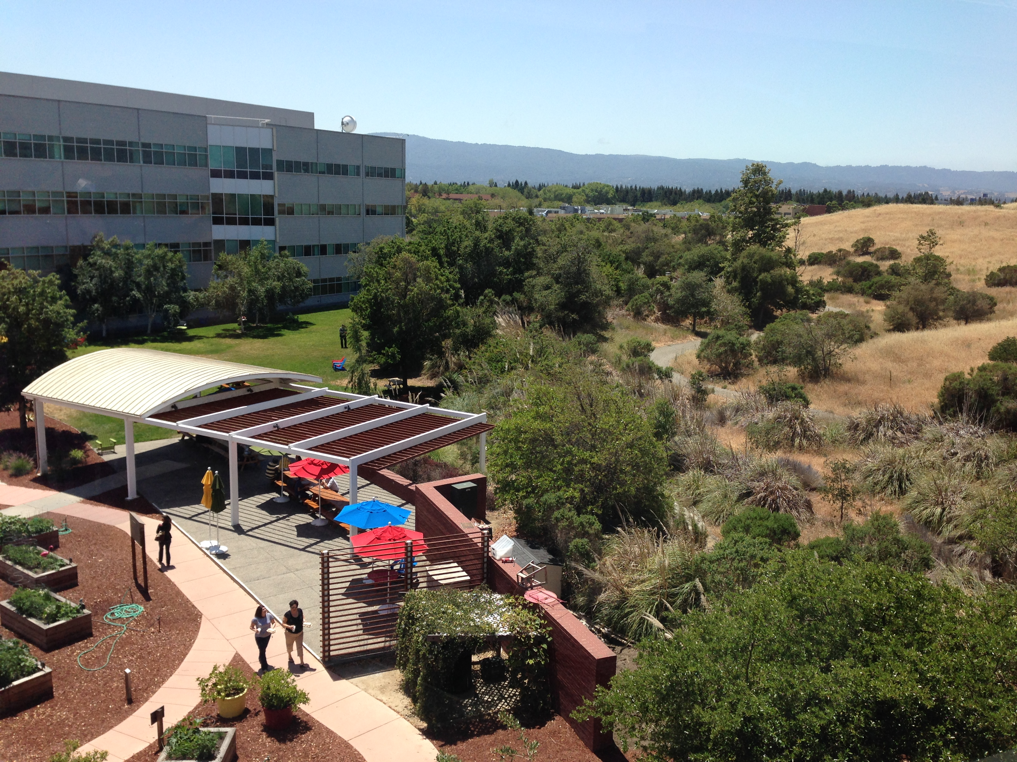 Exterior of Google's buildings and park